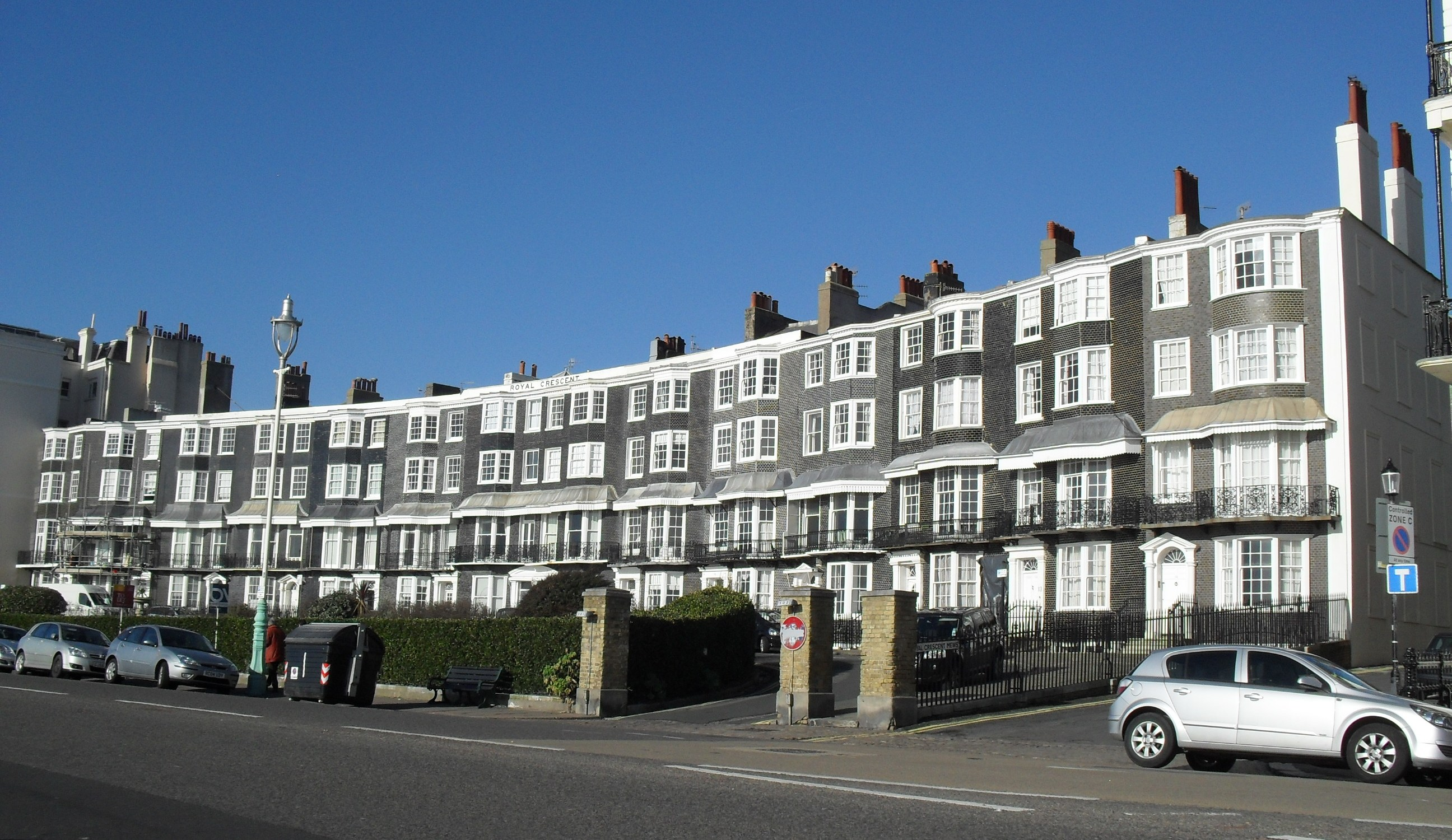 Royal Crescent, Brighton, City of Brighton and Hove, England. A sea-facing crescent of 14 houses, built in 1807. Listed at Grade II* by English Heritage (IoE Code 481162)